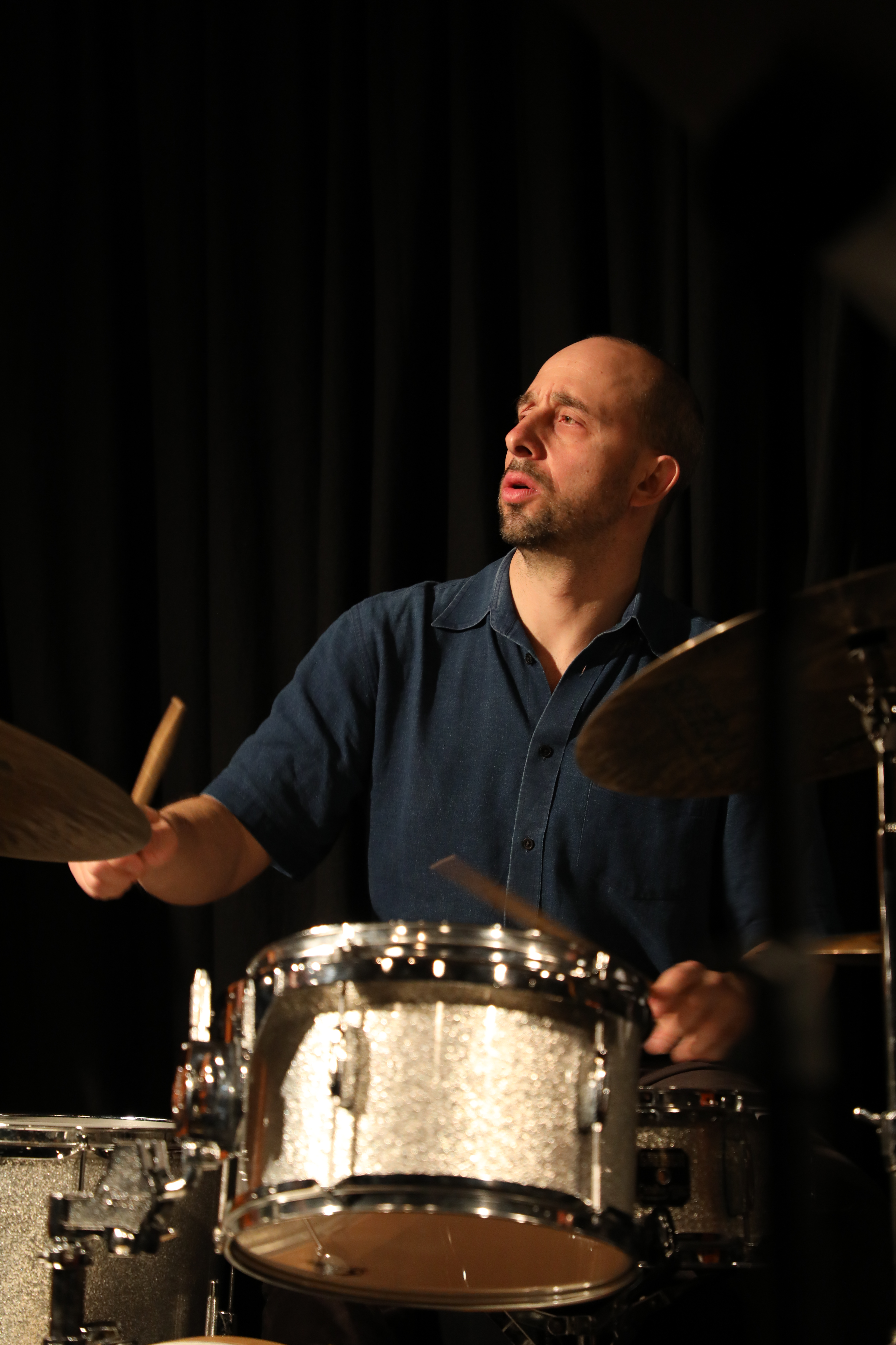 The Fictive Five is the jazz ensemble of composer and saxophone player Larry Ochs. Members are Nate Wooley (tr), Harris Eisenstadt (dr), Pascal Niggenkemper (db) & Ken Filiano (db).